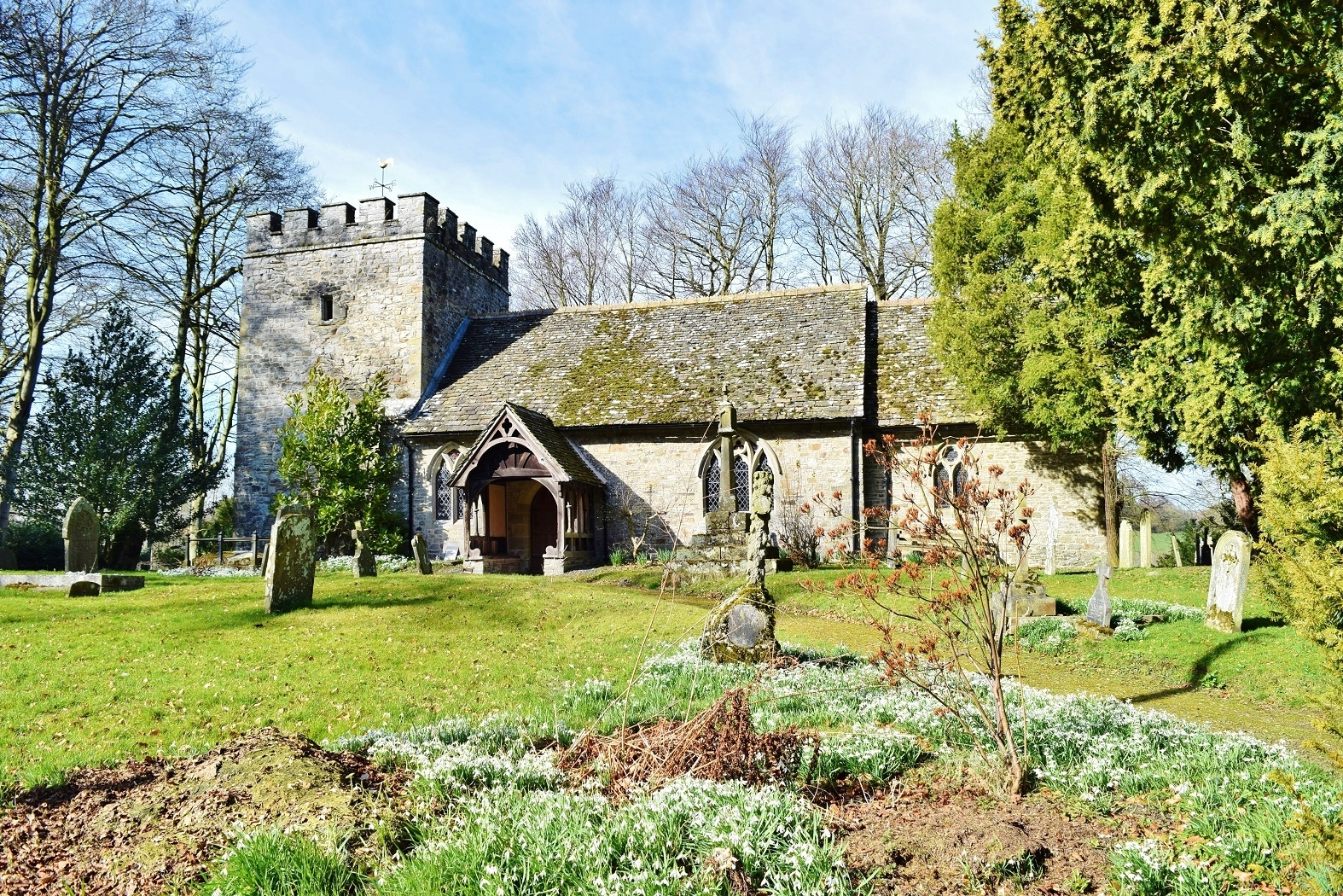 Parish church of St Michael and All Angels, Knill, Herefordshire, seen from the southeast